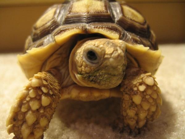 Sassy Young Geochelone Sulcata.